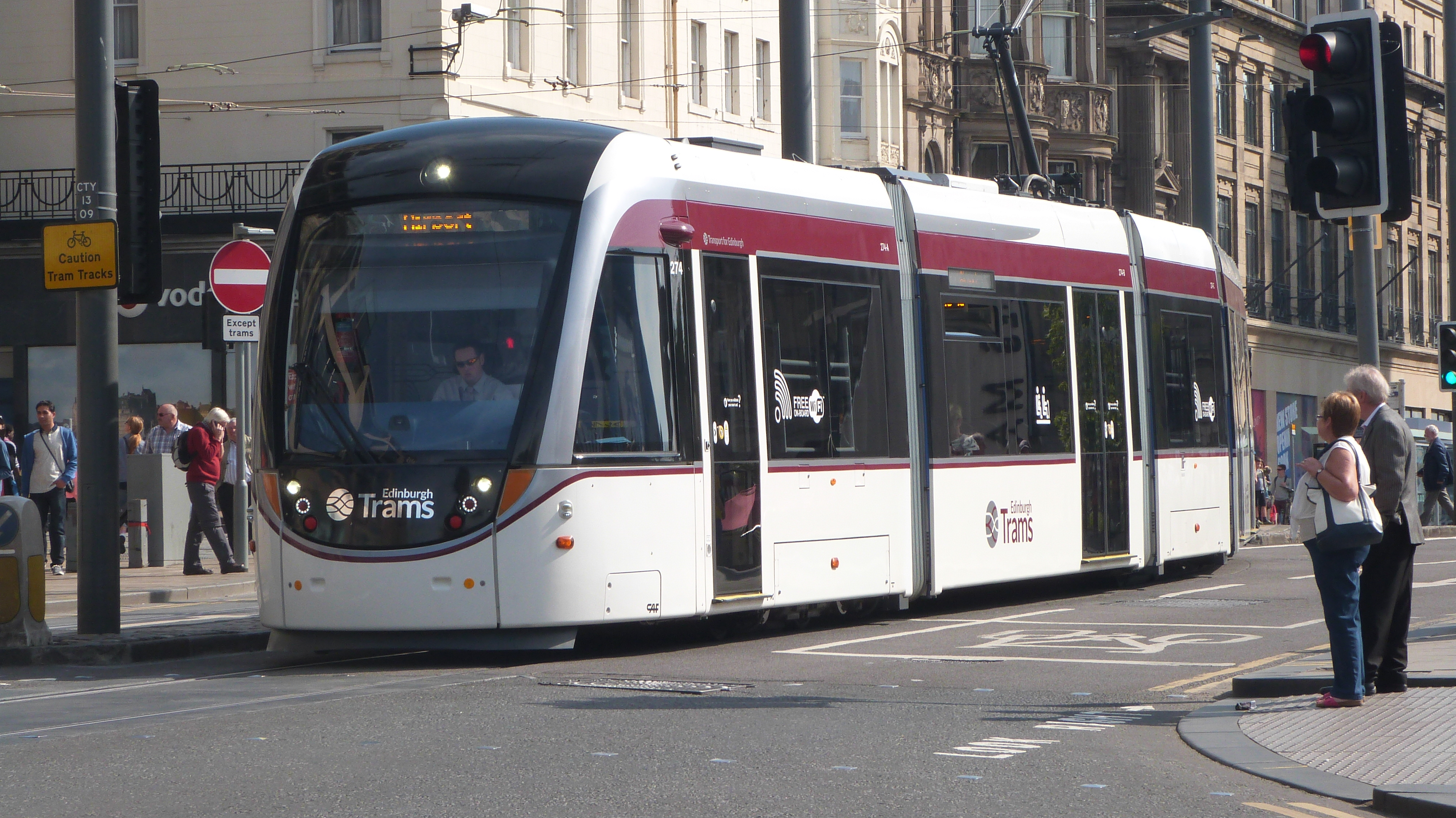 The Edinburgh Tram is a fleet of 27 low-floor trams built by CAF of Beasain, in the Basque country of Spain between 2009 and 2011 for use on the Edinburgh Tram line in Edinburgh, Scotland